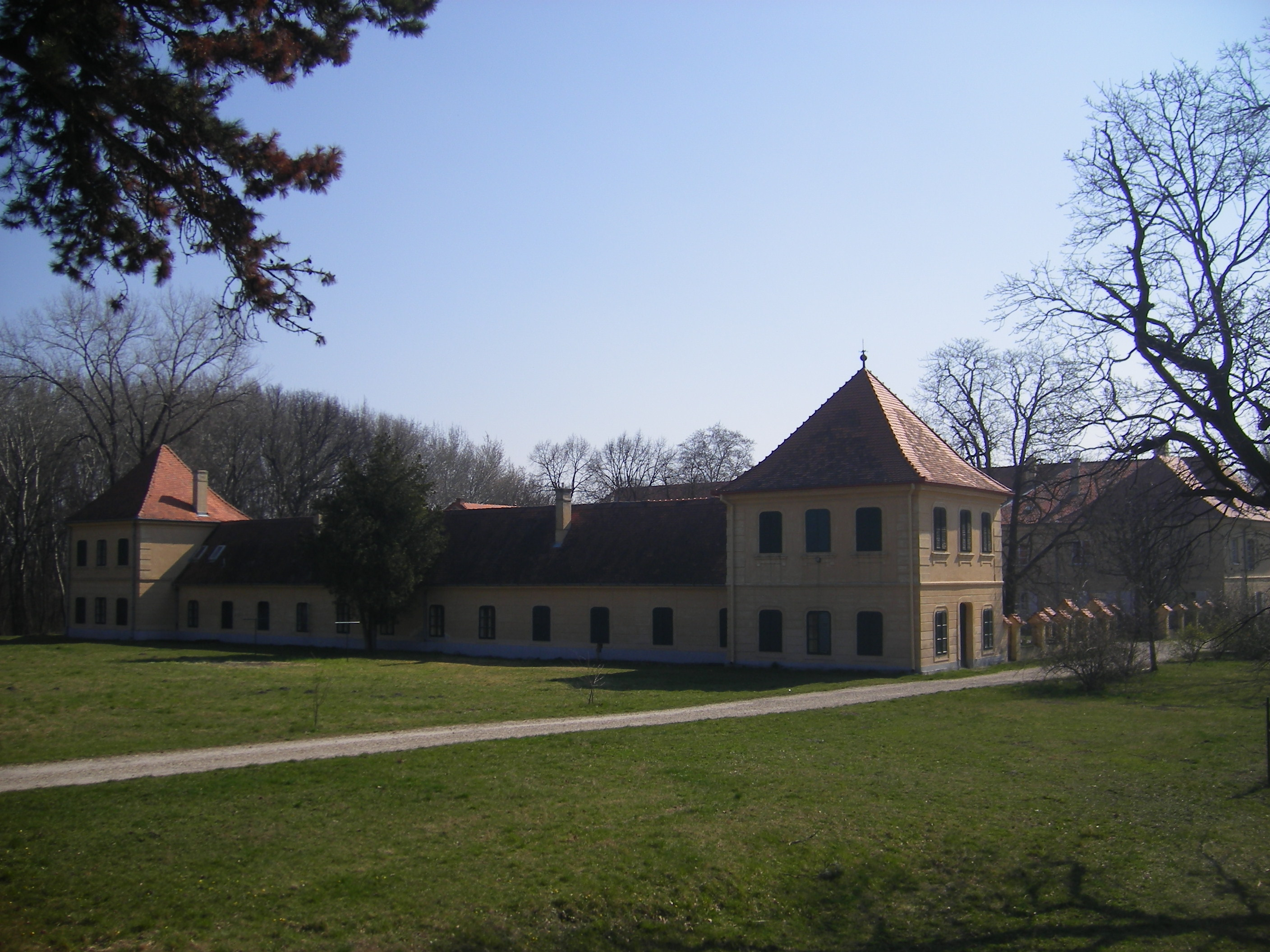 This medium shows the protected monument with the number 401-286/1 in the Slovak Republic. This medium shows the protected monument with the number 401-286/2 in the Slovak Republic.